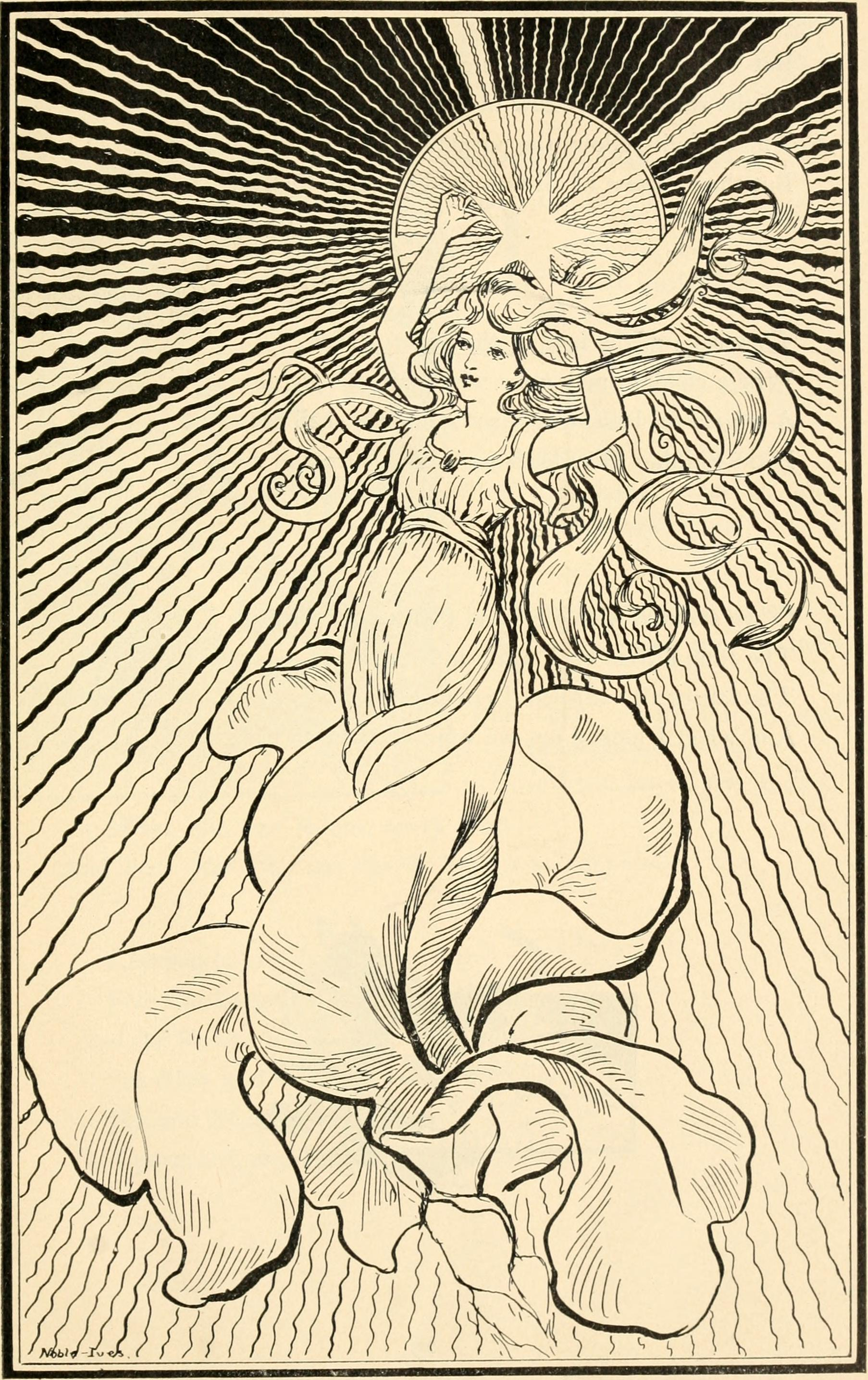 Title: Songs of the shining way Year: 1899 (1890s) Authors: Ives, Sarah Noble, 1864-1944 Subjects: Children's poetry, American Publisher: New York : R.H. Russell View Book Page: Book Viewer About This Book: Catalog Entry View All Images: All Images From Book Click here to view book online to see this illustration in context in a browseable online version of this book. Text Appearing Before Image: IX was dark when we stopped at the Fairy-Land bars,And over our heads there were millions of stars;And I was quite frightened, but Jimmy looked bold,And Alice just shivered—she said it was cold. We timfdly knocked, and then, just as I feared They would not let us in, lo! the bars disappeared, And the stars dropped right down from the sky, and behold! Each one was a lamp for a fairy to hold. And the fairies went dancing like leaves in the wind.,And beckoned to us as we crept on behind;And queer little faces, brimful of surprise,Looked out of the darkness with queer little eyes. Text Appearing After Image: But O the sweet fairies! I never could tell Of the rose-hues we saw in that wonderful dell— The daffodil-yellow, the purple and green, But the sweetest of all was the lily-white Queen. They sang of the land of the Sugary Dews,Where children may eat a whole pie, if they choose-,A wonderful land, which some day we shall see,If the Shining Way leads us—Jim, Alice and me. O we shouted with glee! and then to our surpriseThe stars drifted back again into the skies,The fairies all vanished, I covered my head,—And when I looked up, we were all three in bed